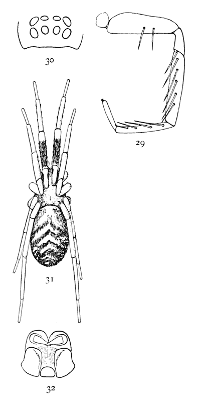 Phrurotimpus alarius (Phrurolithus alarius).—31, female in a natural position, with legs drawn up over the back, enlarged eight times. 29, one of the front legs to show spines. 30, eyes from in front. 32, maxillæ, labium, and ends of mandibles.